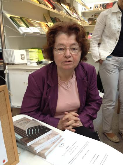 Júlia Pásty in 22. Budapest International Book Festival